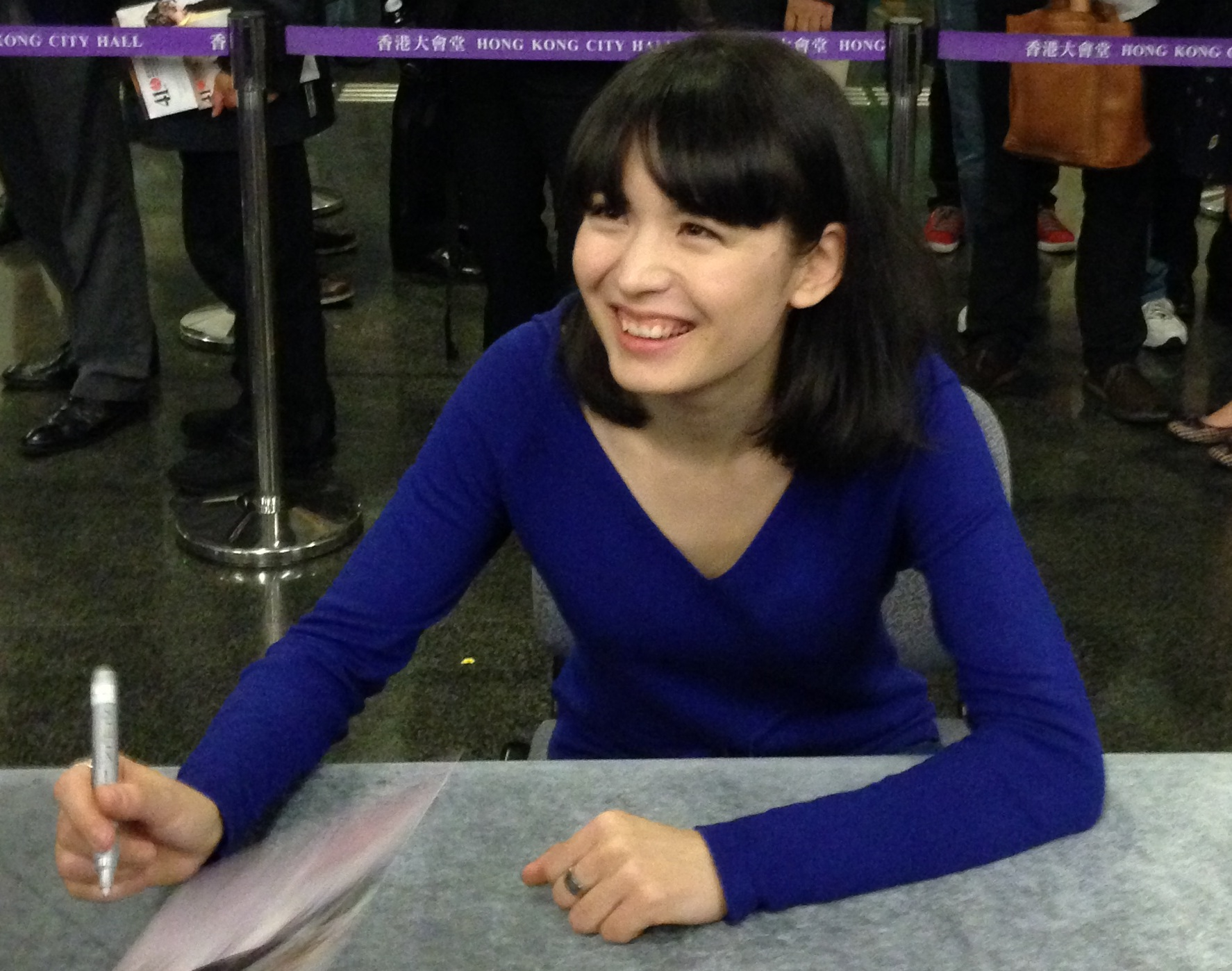 Alice Sara Ott in Hong Kong City Hall